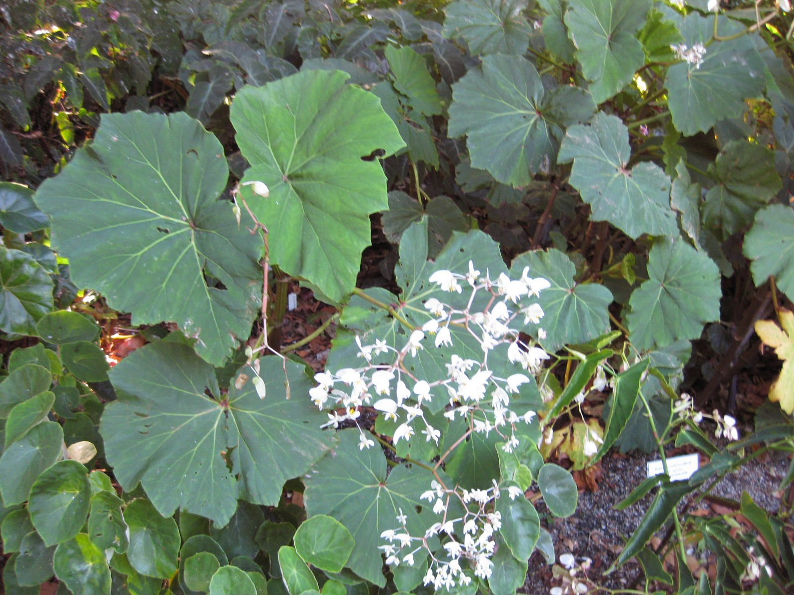 Photographed at the Royal Botanic Gardens Sydney (Australia) in December